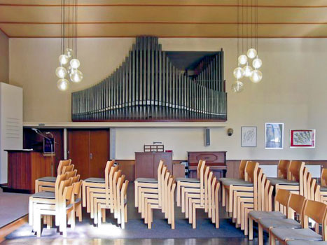 HarderVoelkmann-Orgel_Stockwerk_10